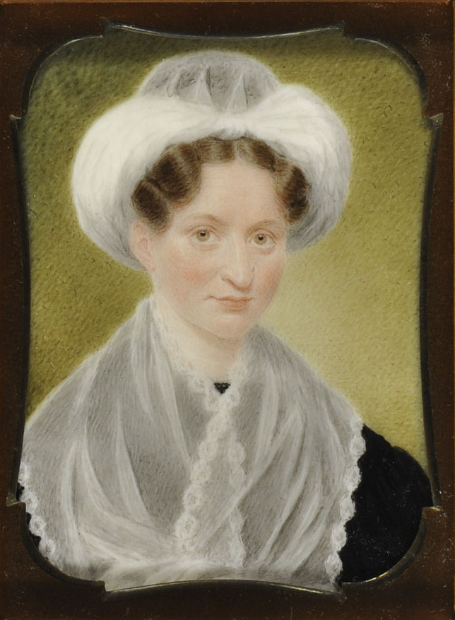 A framed ivory miniature portrait of Mary Lyon, painted in color.